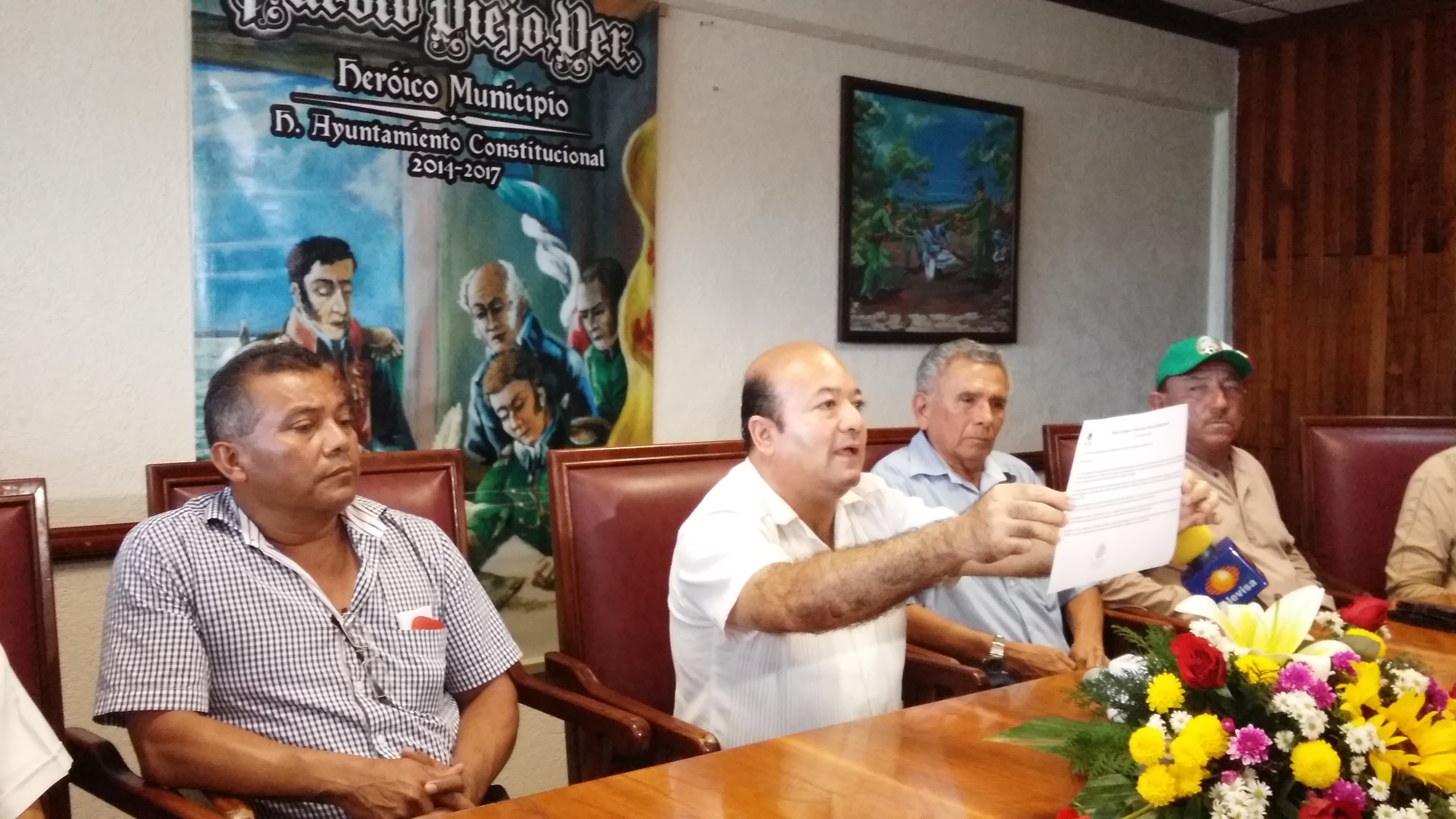 Muestra el documento donde se otorga el nombramiento de Municipio Heroico a Pueblo Viejo